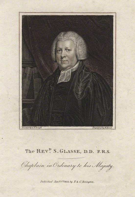 Stipple engraving of Samuel Glasse by William Bond, after George Francis Joseph